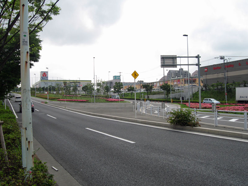 Shopping mall "Green Walk Tama", Hachioji, Tokyo, Japan